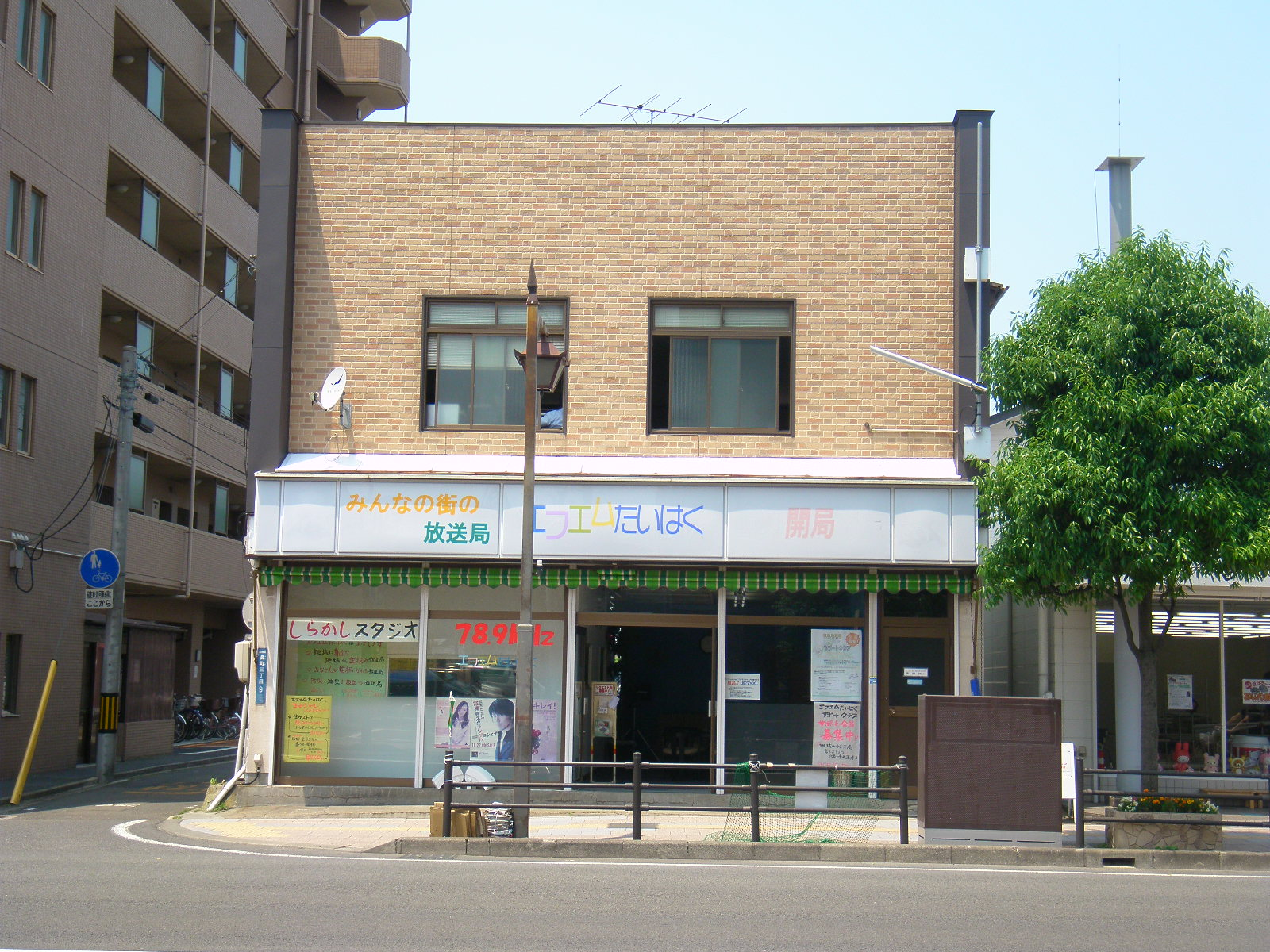 Shirakashi Studio of FM taihaku. Nagamachi, Taihaku-ku, Sendai, Miyagi prefecture, Japan.